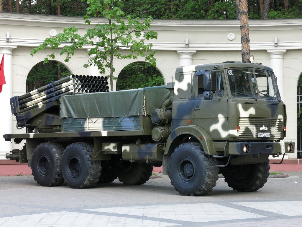 BelGrad BM-21A without projectiles cabinet, view from right front, Minsk 2016